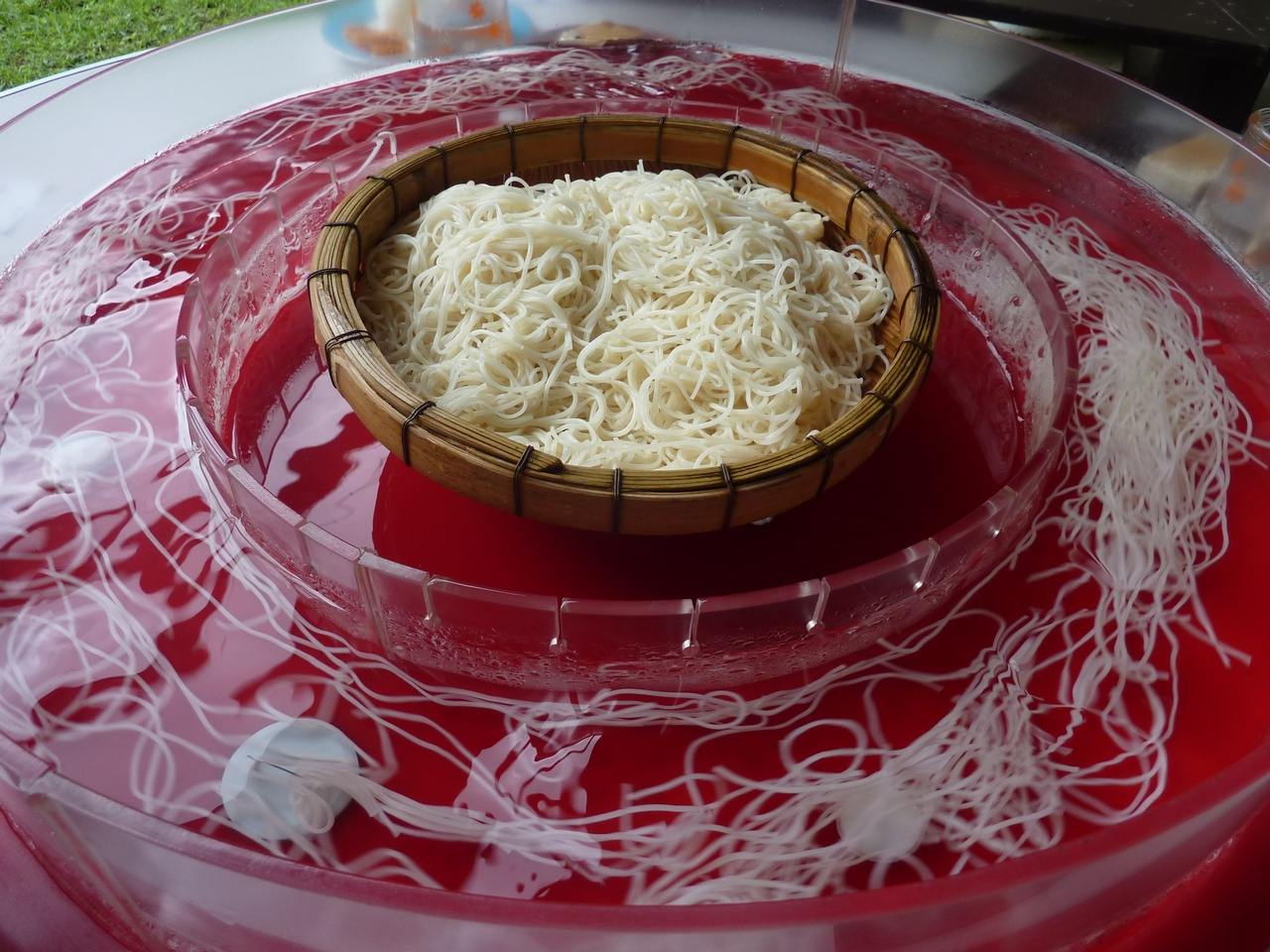 Somen (Kinko Town, Kagoshima, Japan)